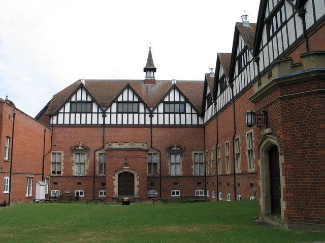 The Natural History Museum at Tring. The Natural History Museum at Tring - formerly the Walter Rothschild Zoological Museum - was constructed in 1889 to a design by William Huckvale (1848-1936) to house the private collection of mounted specimens and library collected by Lionel Walter (2nd Baron) Rothschild. First opened to the public in 1892, the Museum is home to one of the finest collections of stuffed mammals, birds, reptiles and insects in the United Kingdom; its extensive library is available to researchers. The Museum is located in Akeman Street, Tring, and is well worth a visit (at the time of writing, admission is free). While this view is unappealing to the eye, the building serves its purpose well. See also . . . . 1611688; 1480842; 1480844; 1484417; 1484434; 1483625